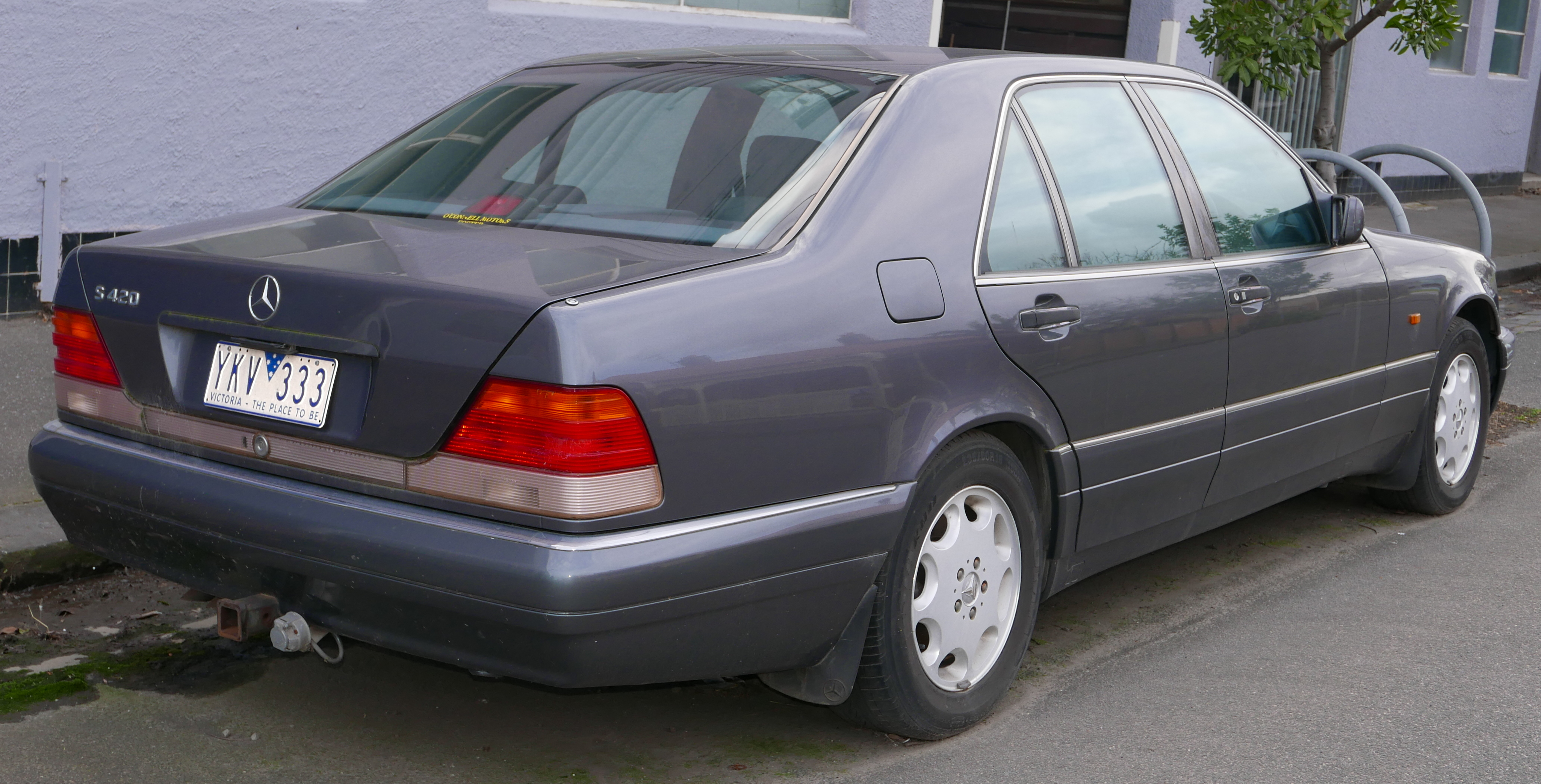 1995 Mercedes-Benz S 420 (W 140) sedan. Photographed in Collingwood, Victoria, Australia. Vehicle registration enquiry results Jurisdiction Victoria Registration YKV333 Chassis code WDB1400422A226821 Engine code 11997122026640 Compliance date 1995-03 Year of manufacture 1995